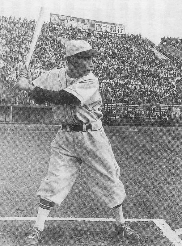 Makoto Kozuru in 1949.